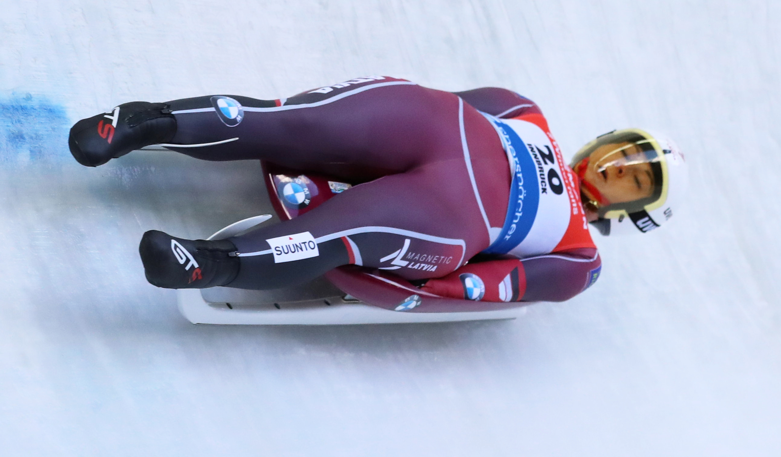 Women's World Cup race at the 2018/19 Luge World Cup in Innsbruck-Igls